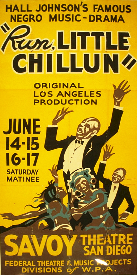 Silkscreen color poster for Federal Theatre Project presentation of "Run, Little Chillun" by Hall Johnson (1888-1970) at the Savoy Theatre, San Diego.